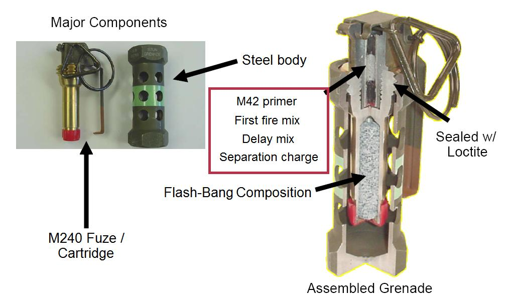 Diagram of the M84 stun grenade. This version a derivative of government source.